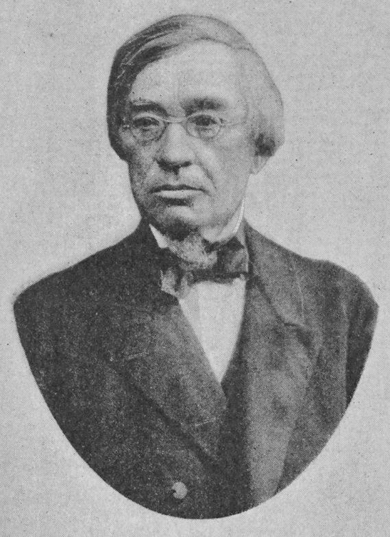 Portrait of Jan Pětr Jordan (1818 - 1891), Sorbian writer from Lusatia (East Germany)